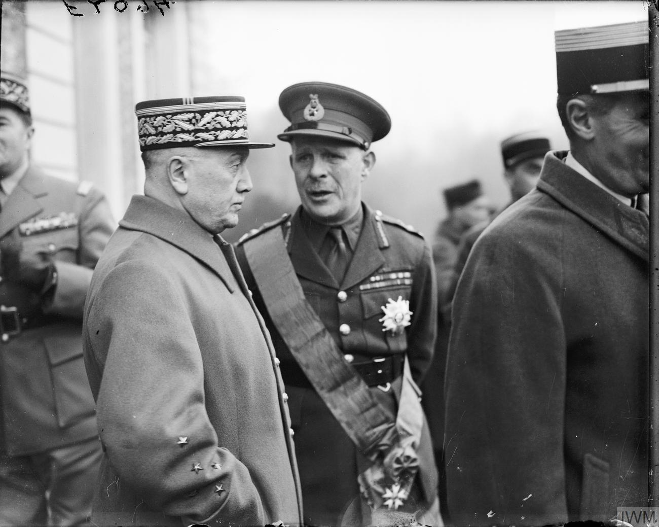 General Lord Gort VC, Commander in Chief of the British Expeditionary force, with General Joseph Georges, Commander in Chief of the French 9th Army after receiving the Grand Croix of the Legion of Honour at Arras, France.